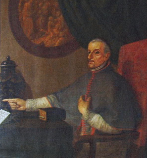 Portrait of Miguel de Castro, Archbishop of Lisbon (c. 1750), by Francisco Vieira Lusitano.